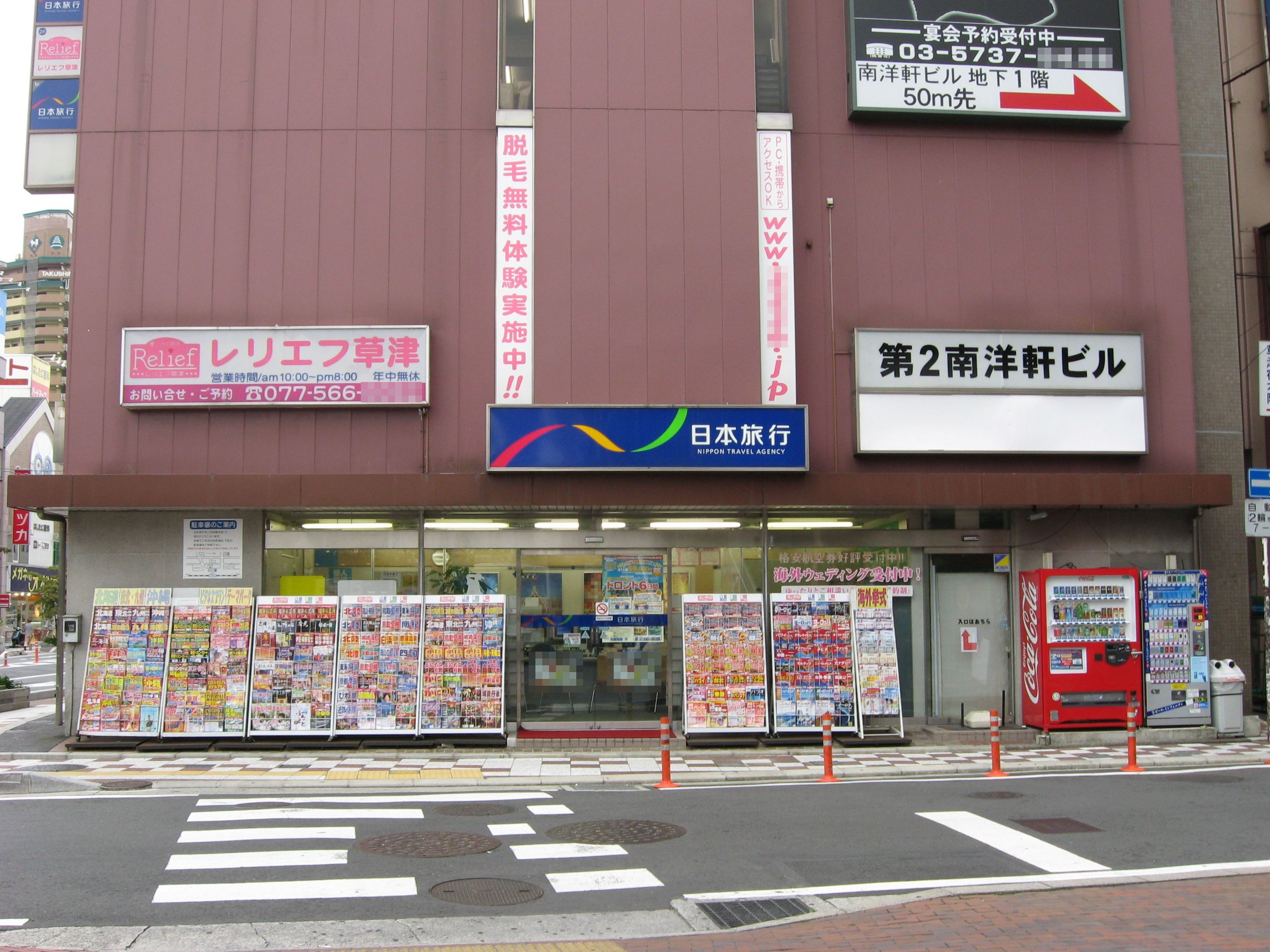 Nippon Travel Agency Kusatsu Branch. It is the birthplace of Japanese travel agency here.